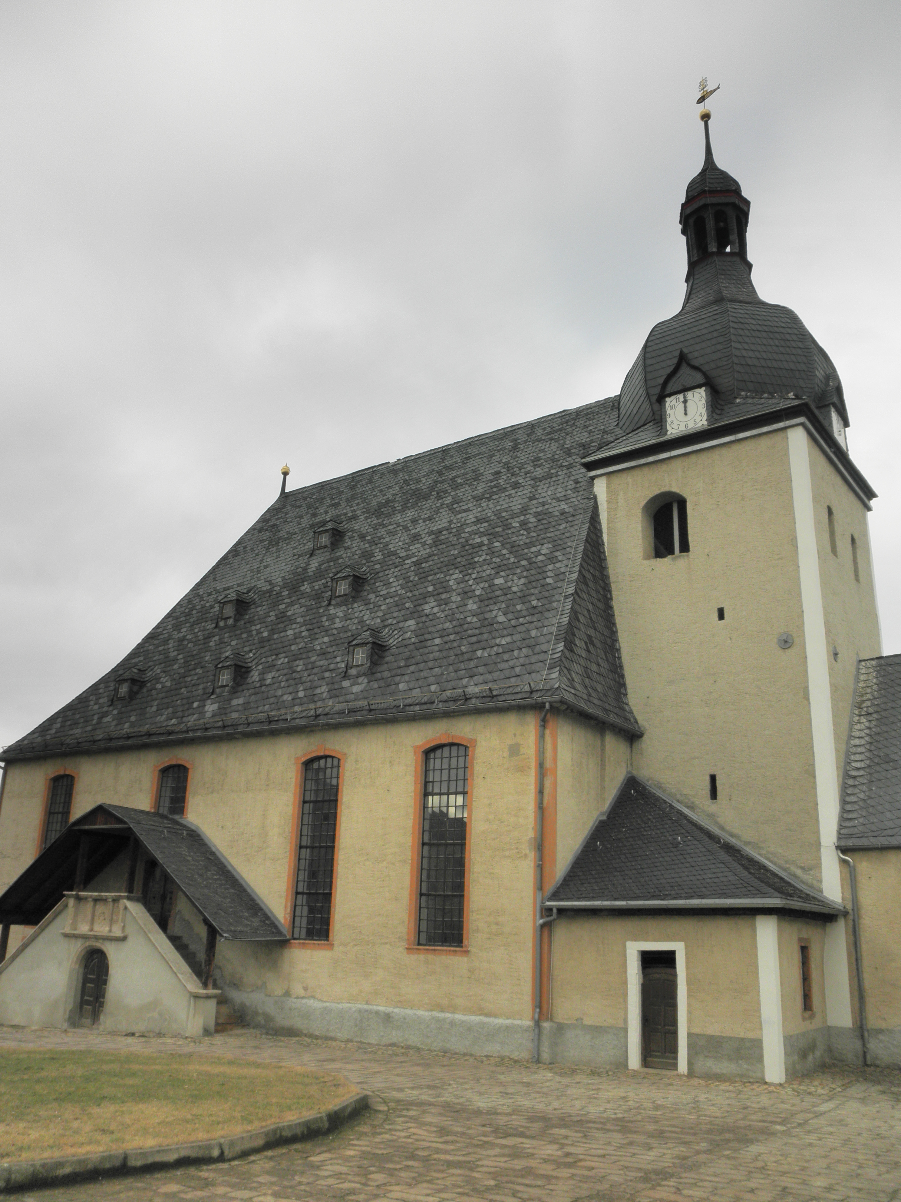 Church in Großbrembach in Thuringia